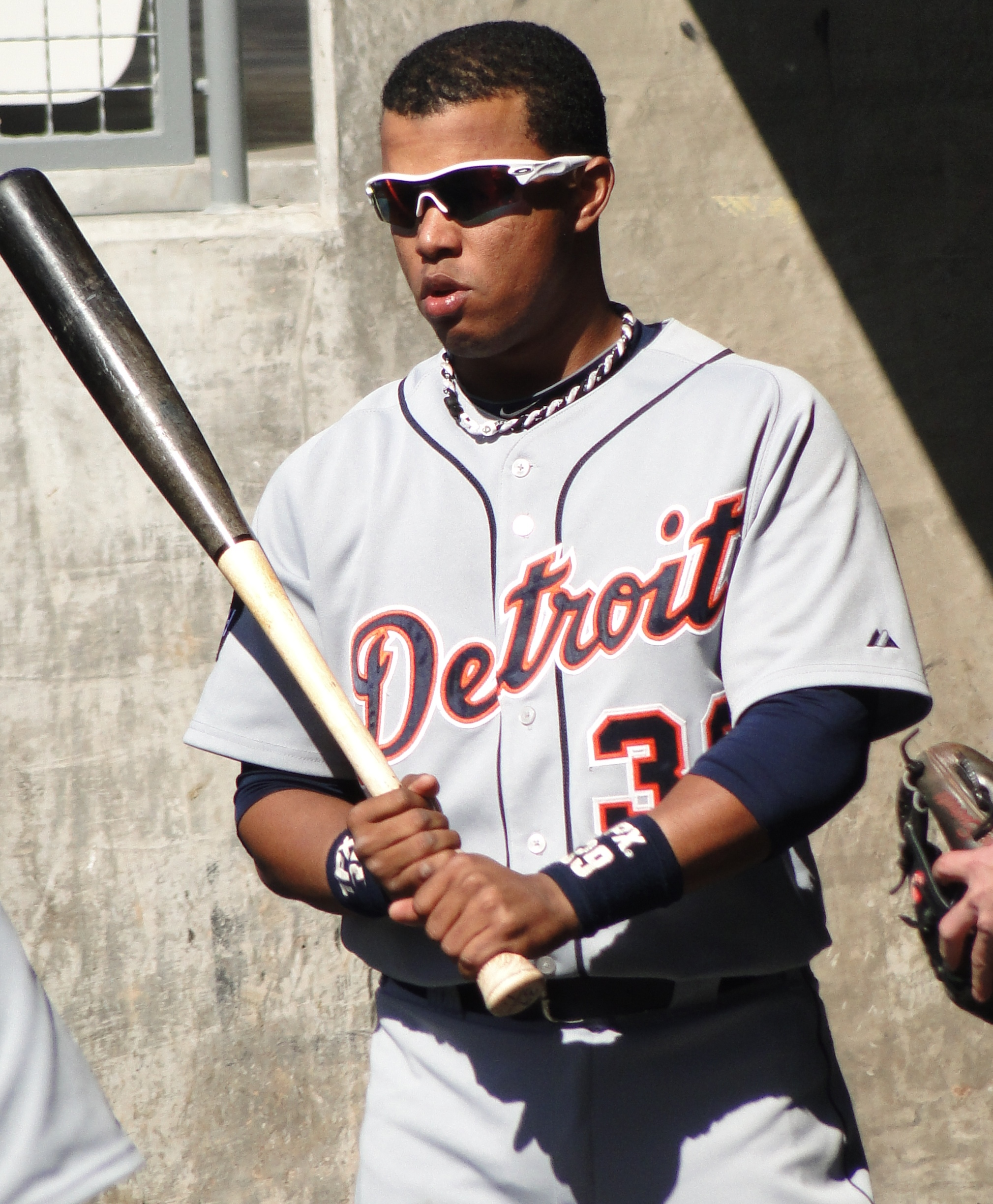 Description Photograph of Ramón Santiago in the visitor's dugout at Dodger Stadium Date22 May 2010SourceI (Cbl62 (talk)) created this work entirely by myself.AuthorCbl62 (talk) 06:24, 23 May 2010 . . Cbl62 . . 2,019×2,448 (1.51 MB) Photograph of Ramón Santiago in the visitor's dugout at Dodger Stadium